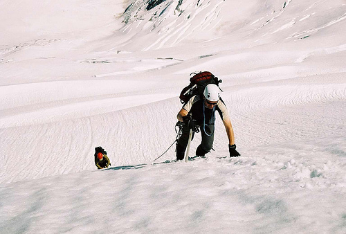 It sure was aweful nice of someone to kick those steps in... :-) Norbert leading his rope team up Parapet in a classic mountaineering shot.